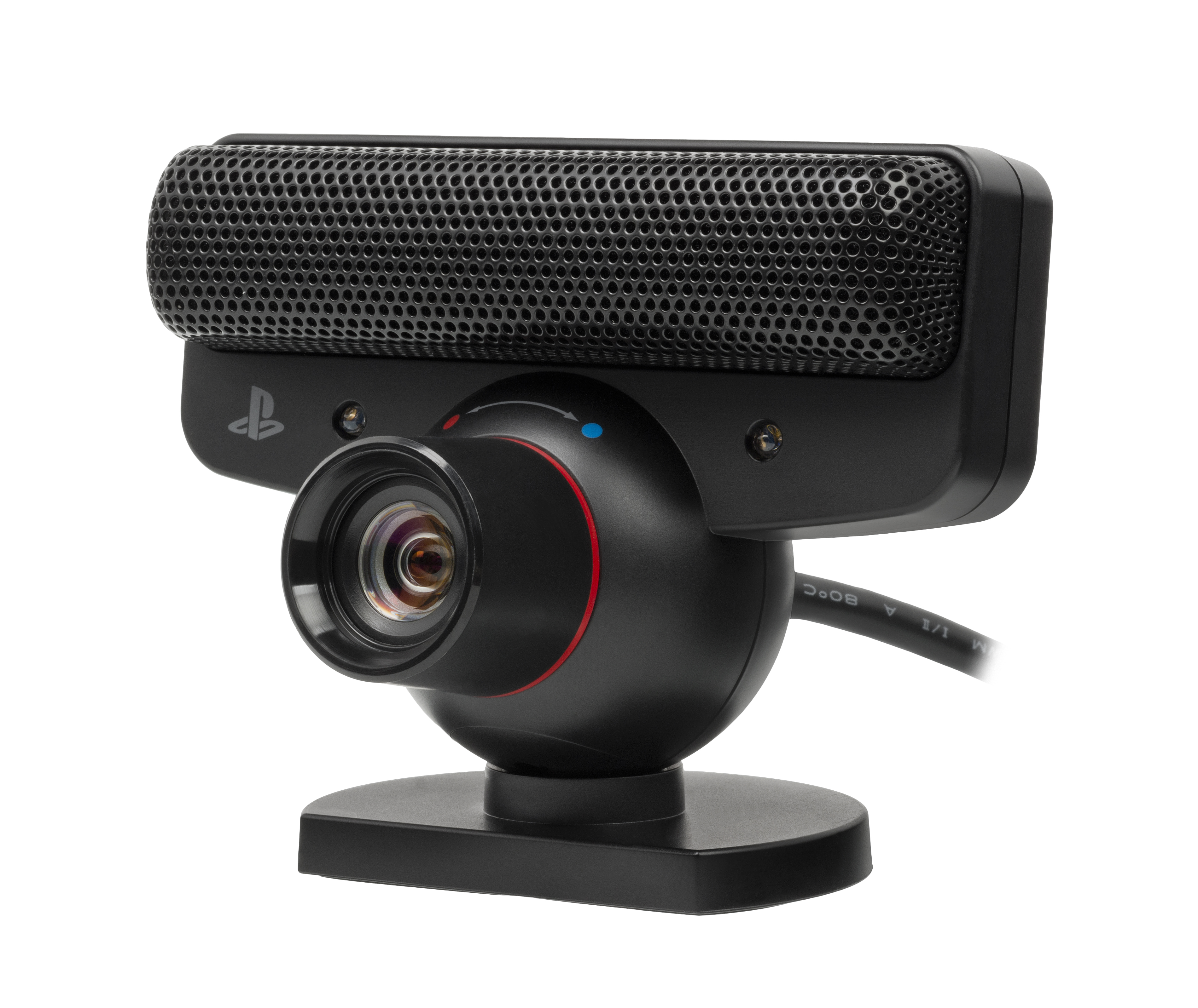 The PlayStation Eye camera. A motion-tracking camera for the PlayStation 3 meant to be used in conjunction with the PS Move system.